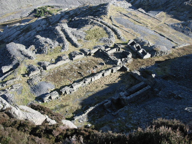 Chwarel Wrysgan The main dressing floor of this long abandoned quarry